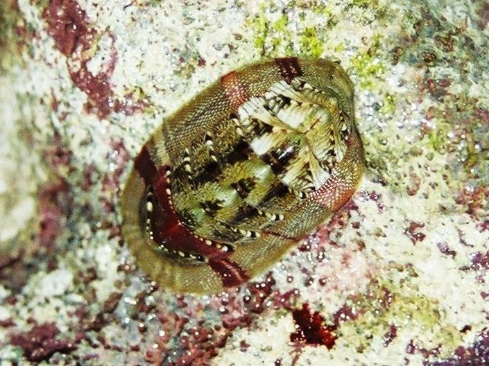 Chiton sp, near Kekova in Turkey.